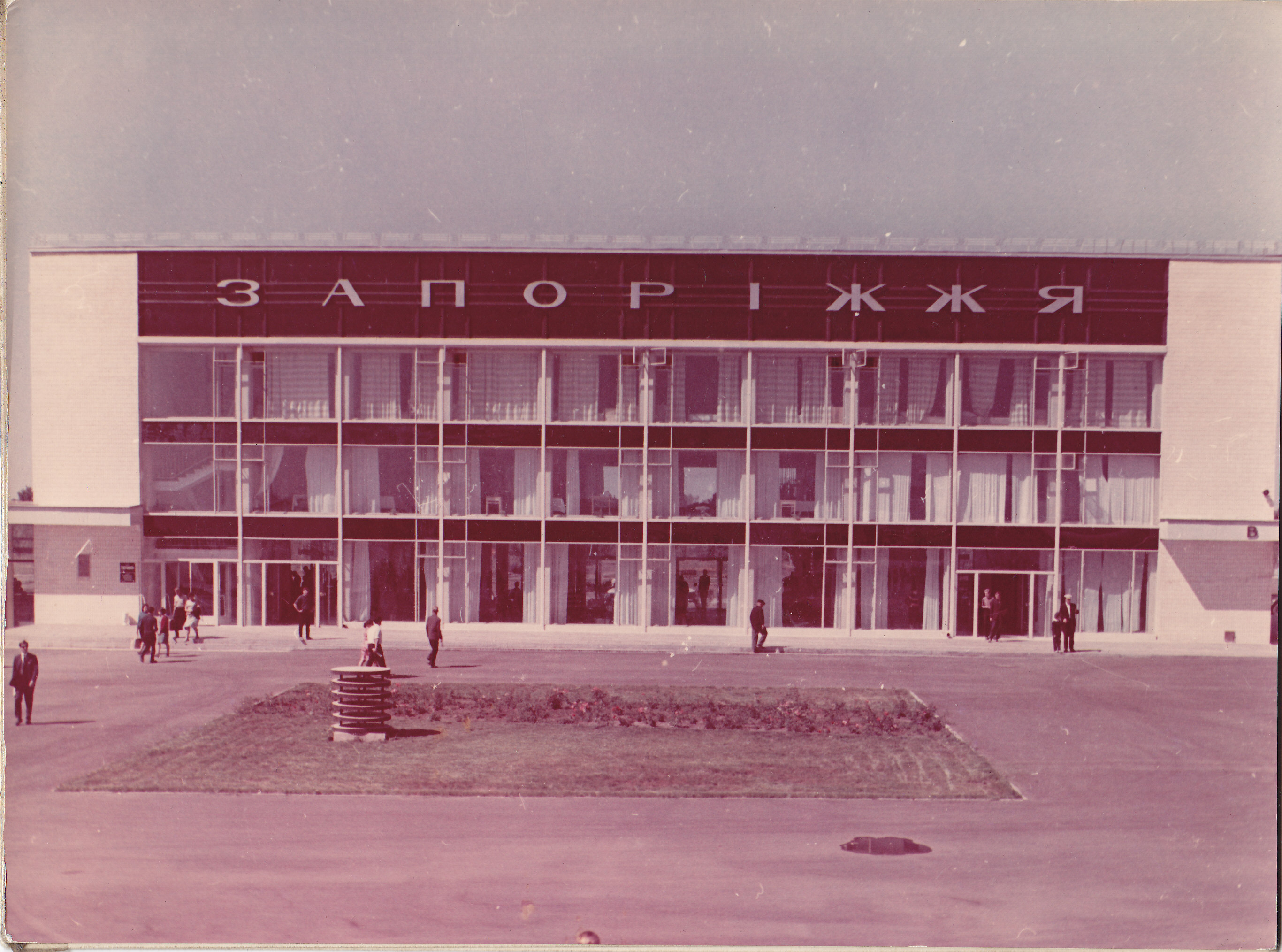 Scanned archive photo of Zaporizhzhia airport terminal